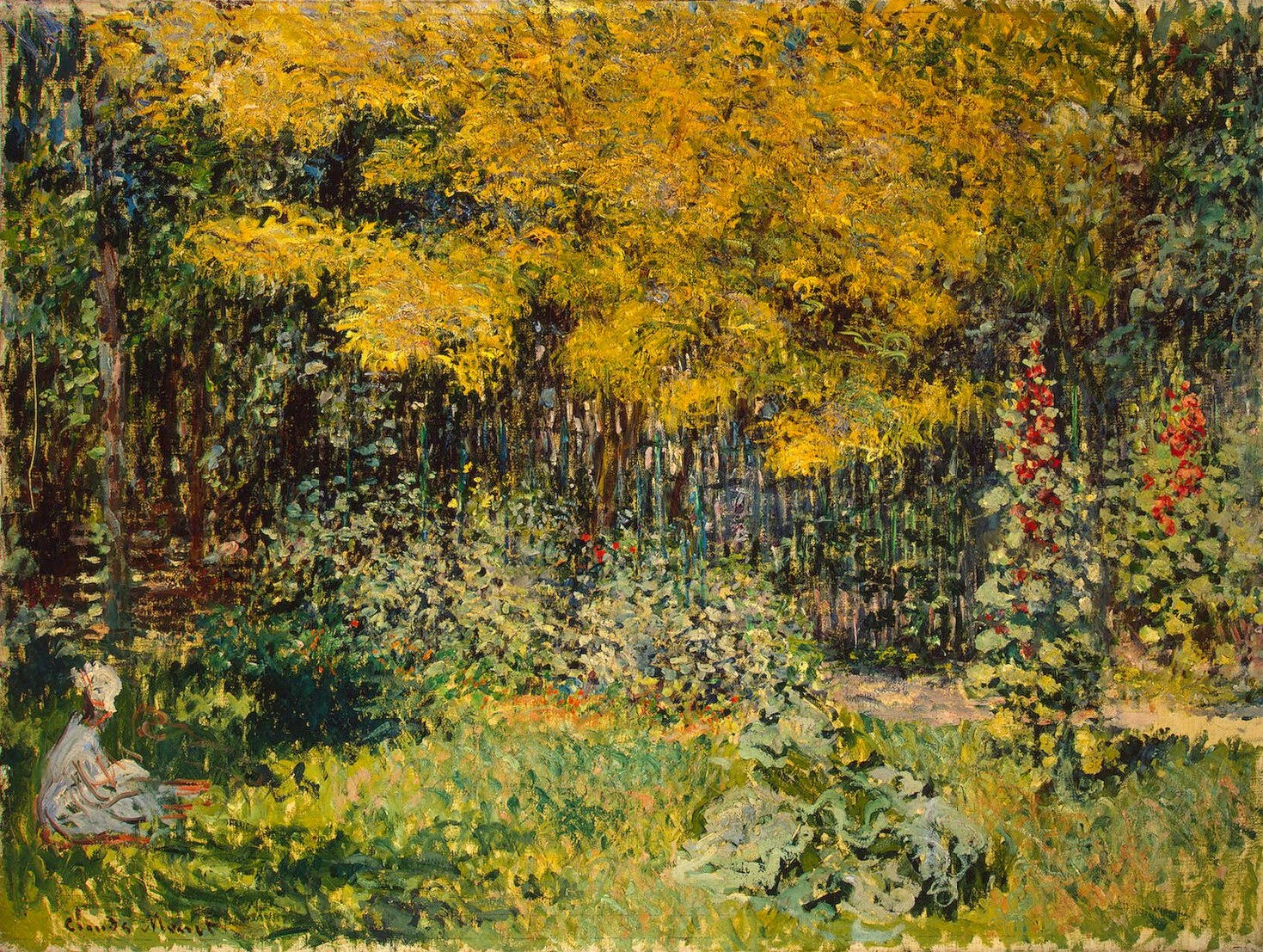 Claude Monet: Garden (oil on canvas 75.5 x 100.5 cm, Hermitage, St. Petersburg)